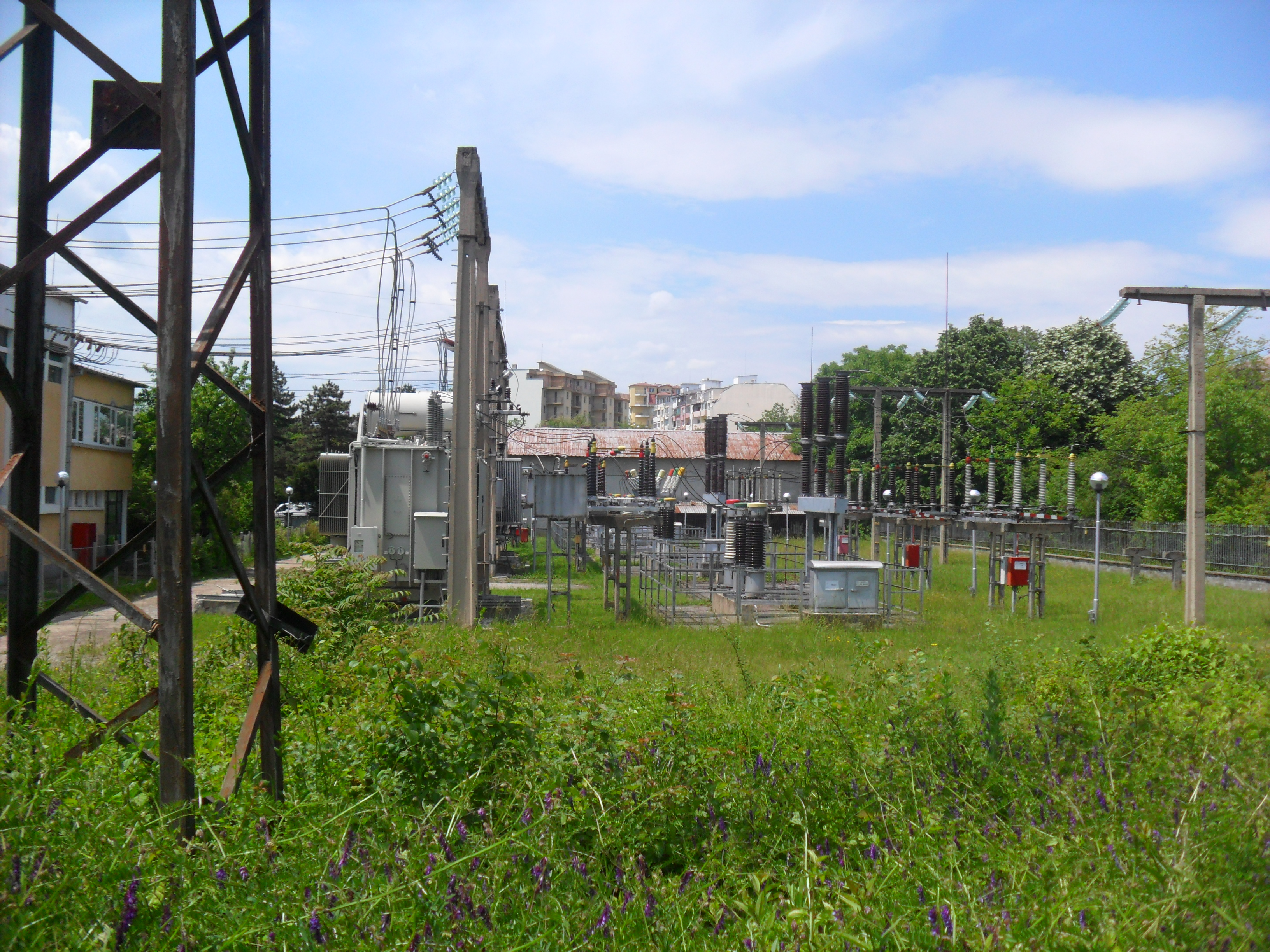 Distribution part of the electrical substation in Veliko Tarnovo, Bulgaria